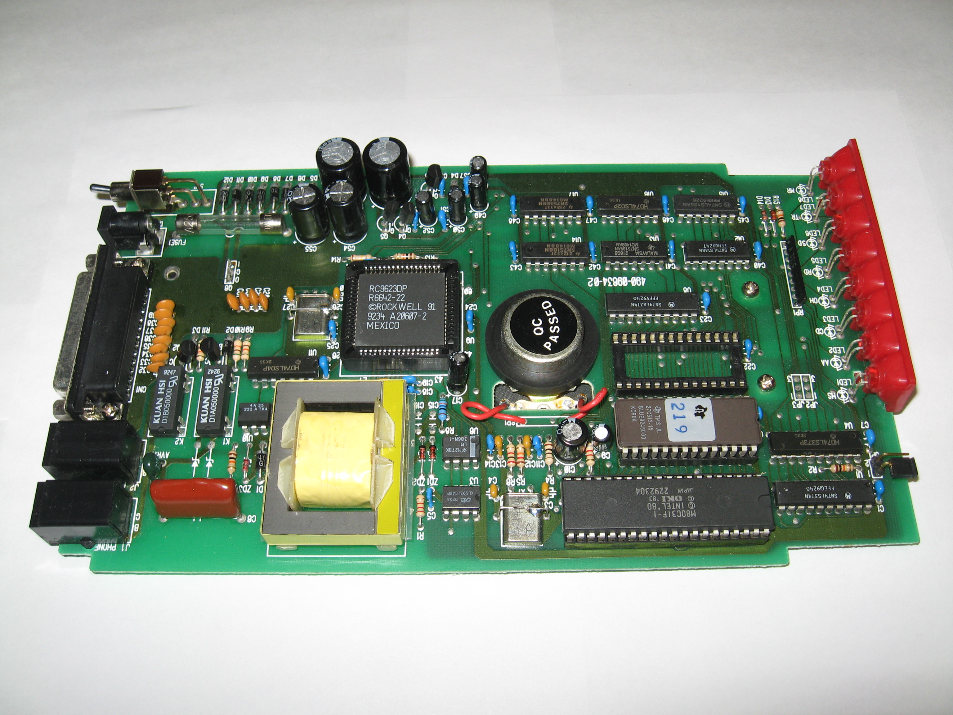 The printed circuit board of an external 9.6kbits/sec (V.32) dial-up modem.